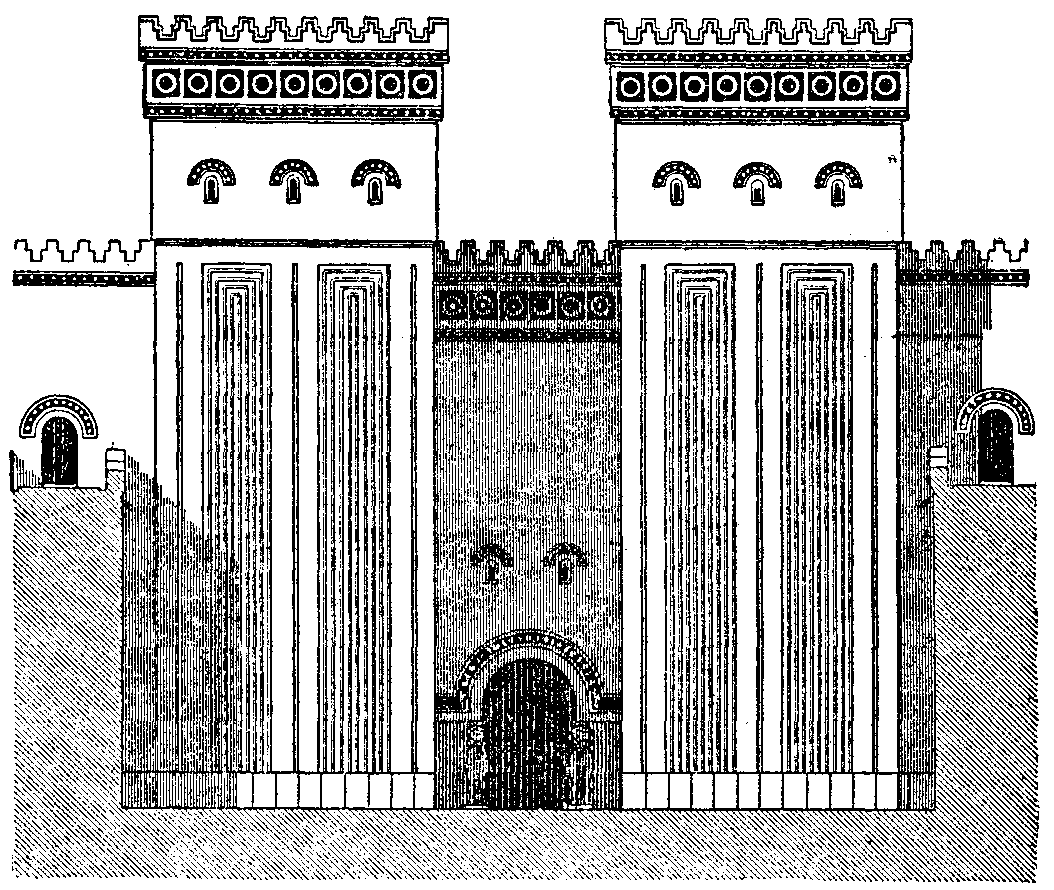 Palace of Dur-Sharrukin. Khorsabad, Iraq. Entrance gateway.